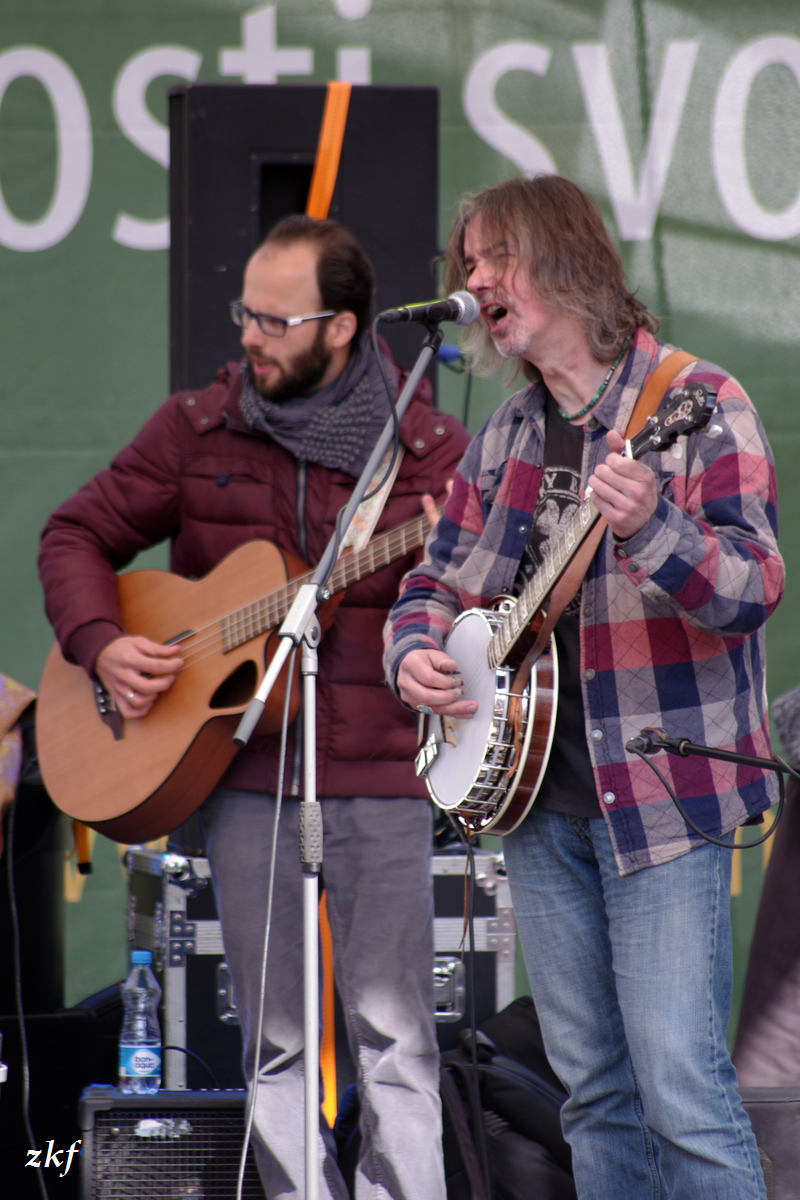 Druhá tráva (Second grass) on the Liberation festival in Pilsen, May 2014 (Luboš Malina, Tomáš Liška)